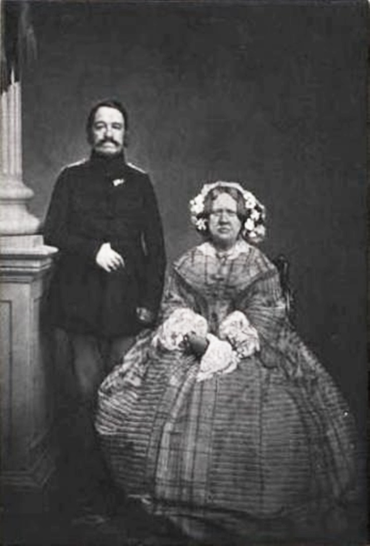 Frederik Ferdinand, Hereditary Prince of Denmark (1792-1863) and Princess Caroline of Denmark (1793-1881)